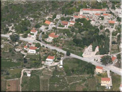 Ponikve